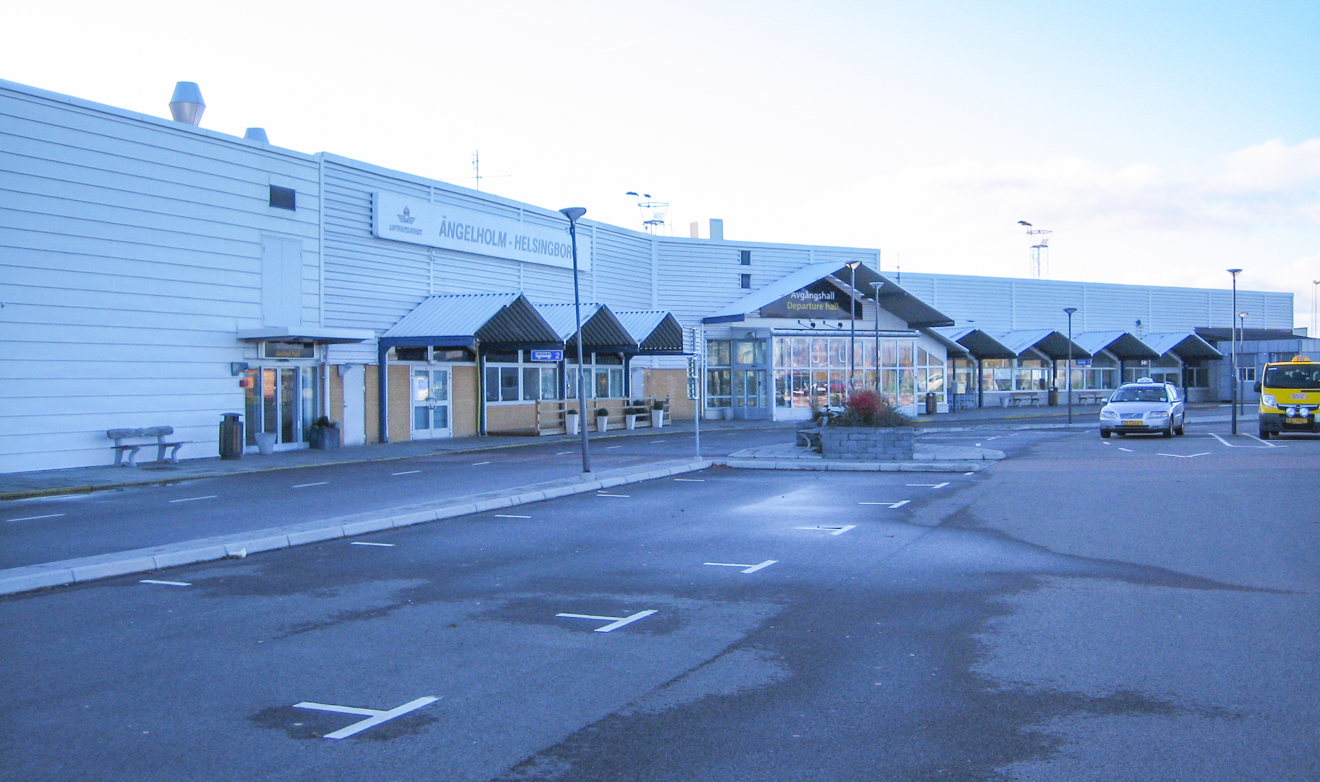 Ängelholm-Helsingborg Airport. Entrance. Photo by the uploader.